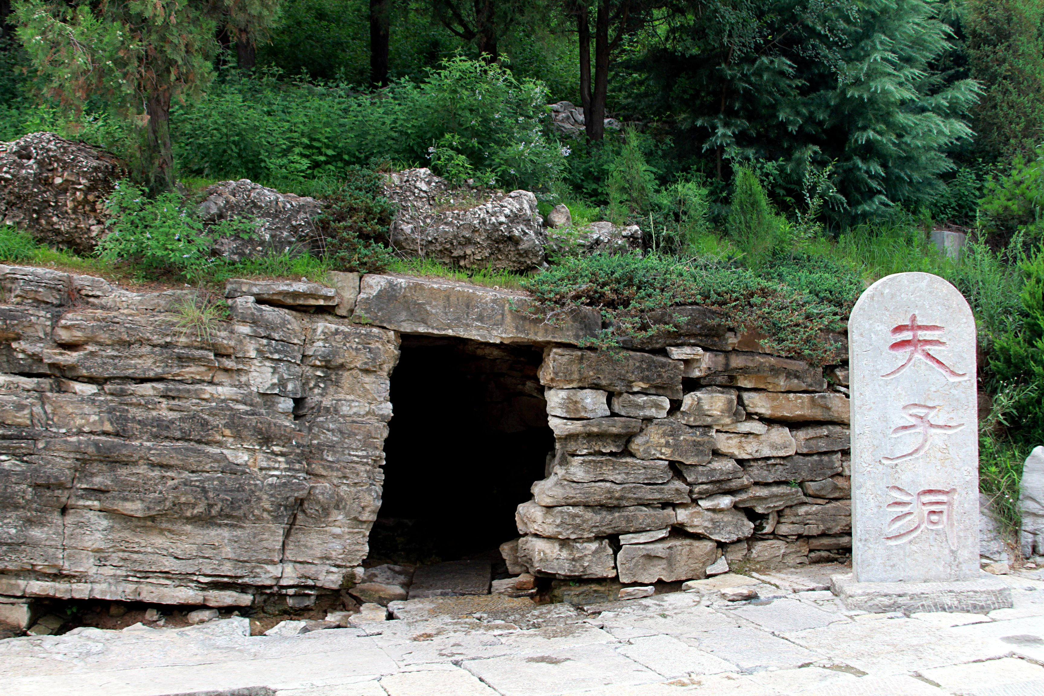 Photograph of the entrance to the Confucius cave on Mount Ni.